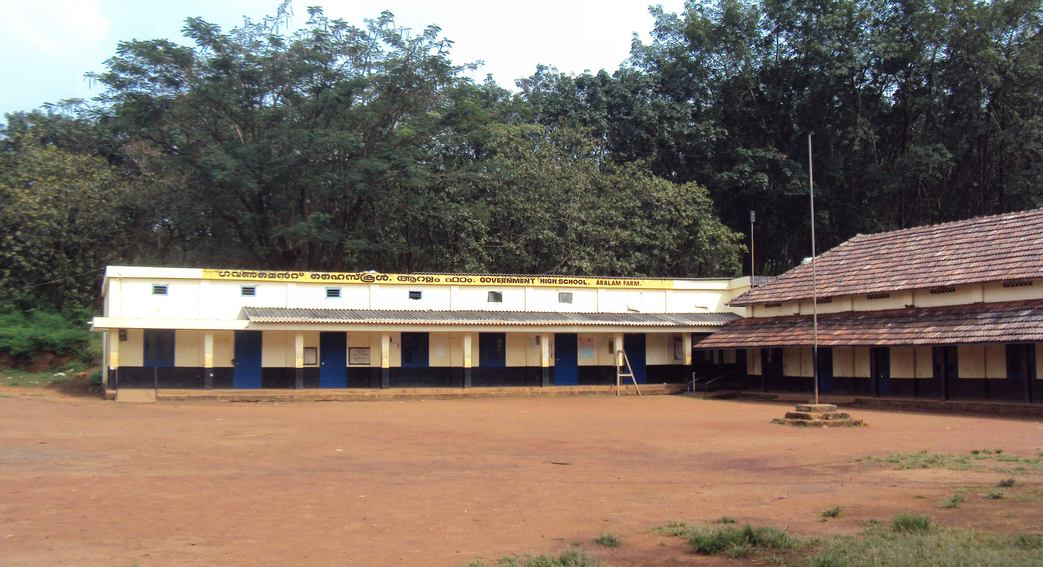 Aralam Farm Government High School